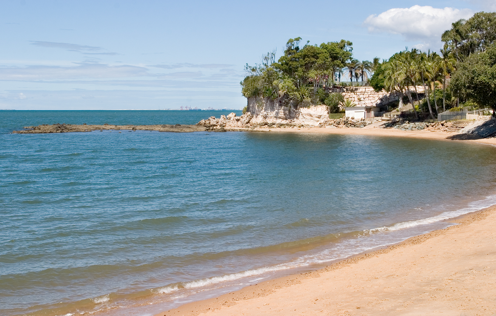 Scotts Point Marhate on a quite day; Woody Point, Queensland, Australia